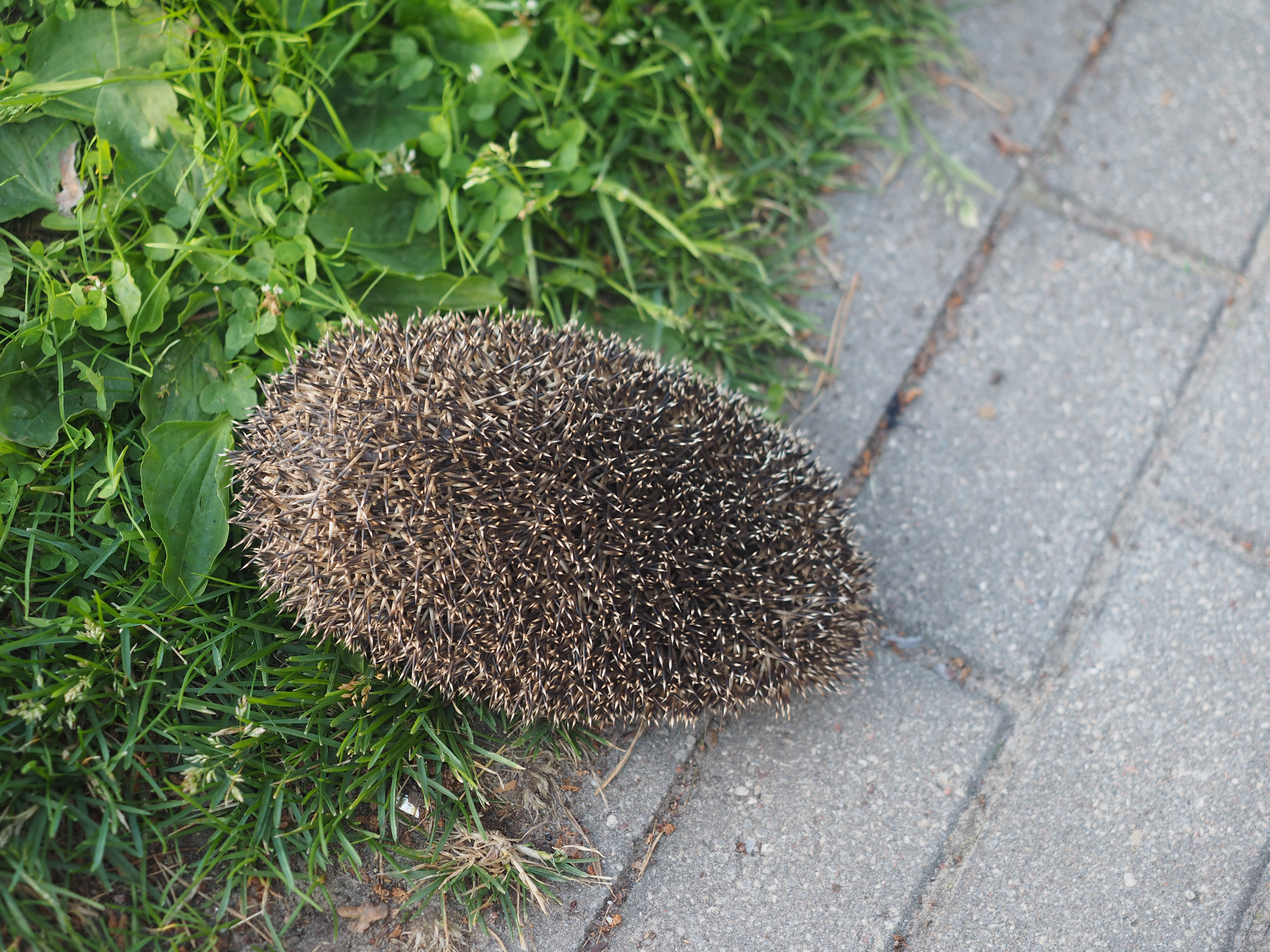 A hedgehog in Jurmala, Latvia. The hedgehog has curled up into a ball.